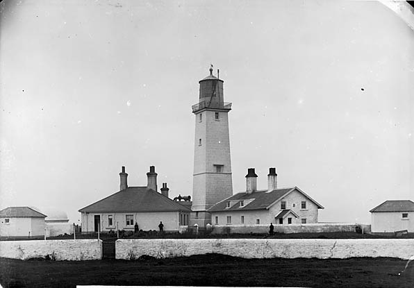 1 negative : glass, dry plate, b&w ; 12 x 16.5 cm.